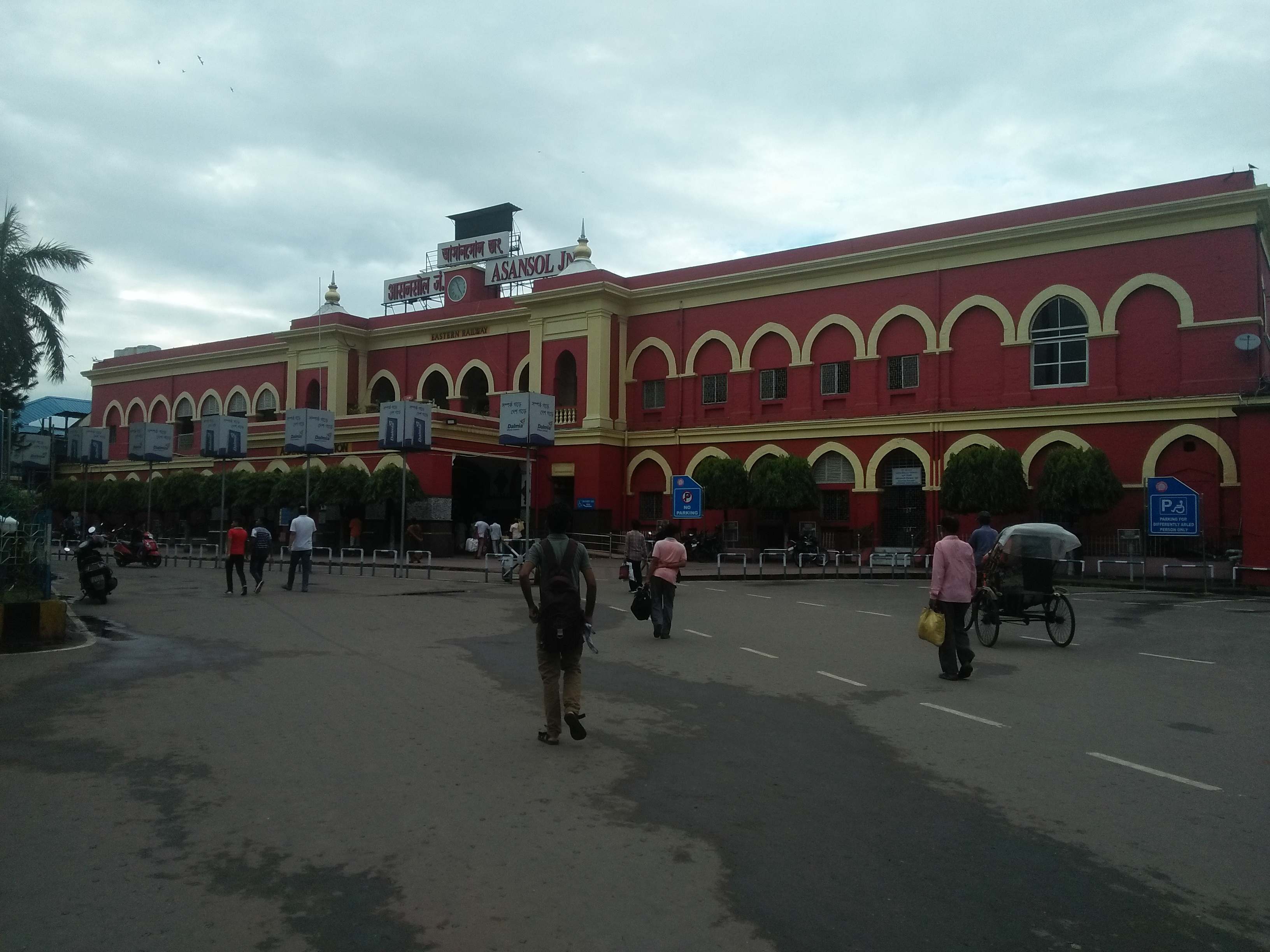 Asansol junction